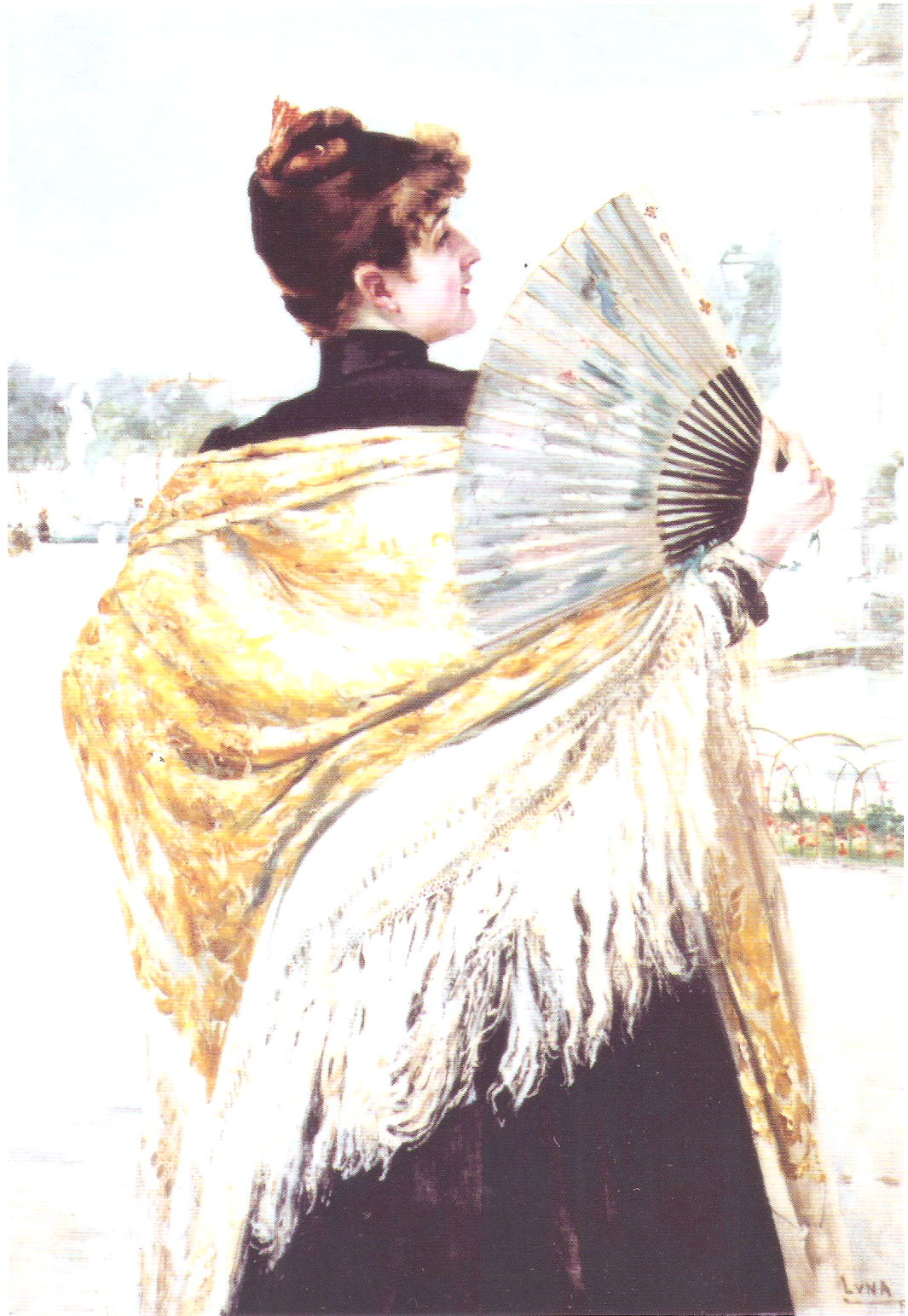 "Woman with Manton de Manila" by Juan Luna.